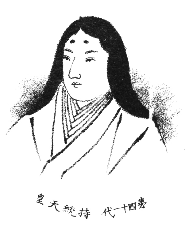 Empress Jitō, who was the 41st monarch of Japan